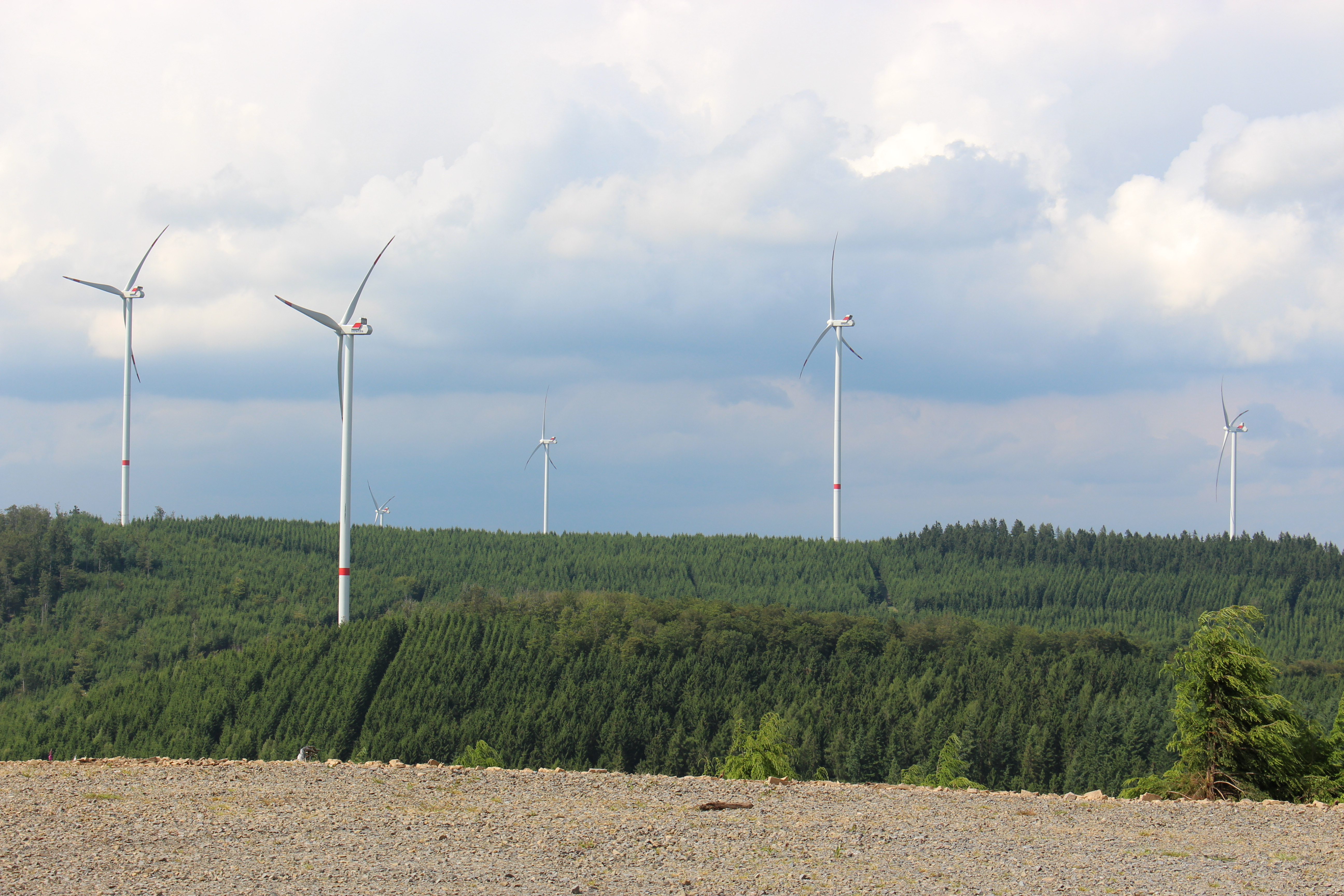 Windfarm Hesselbach near to Hesselbach.